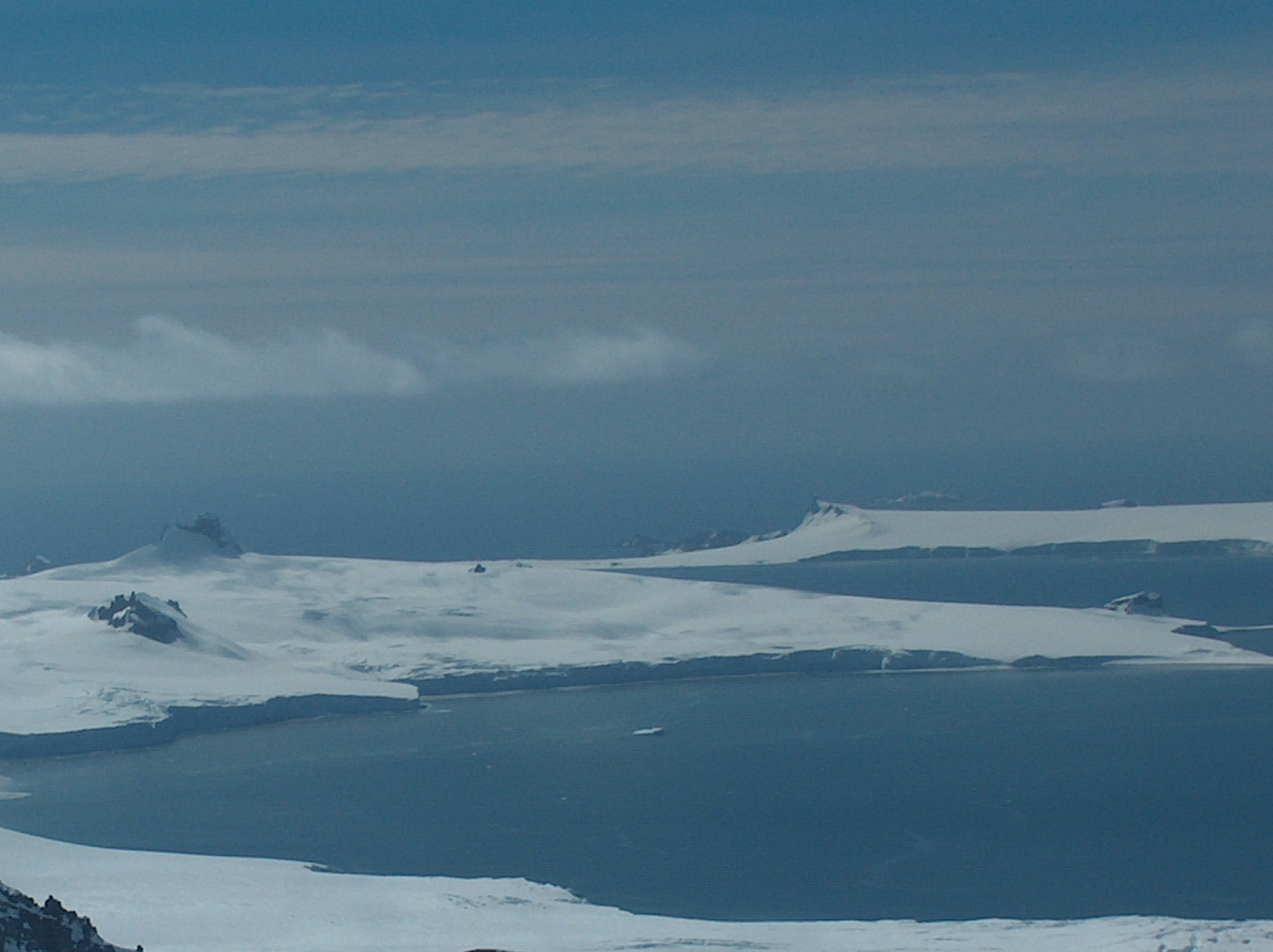 View of the Debelt Glacier on Livingston Island. source: Lyubomir Ivanov